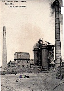 Blast furnaces, Foundry 'La Constancia', Málaga, Spain 1847